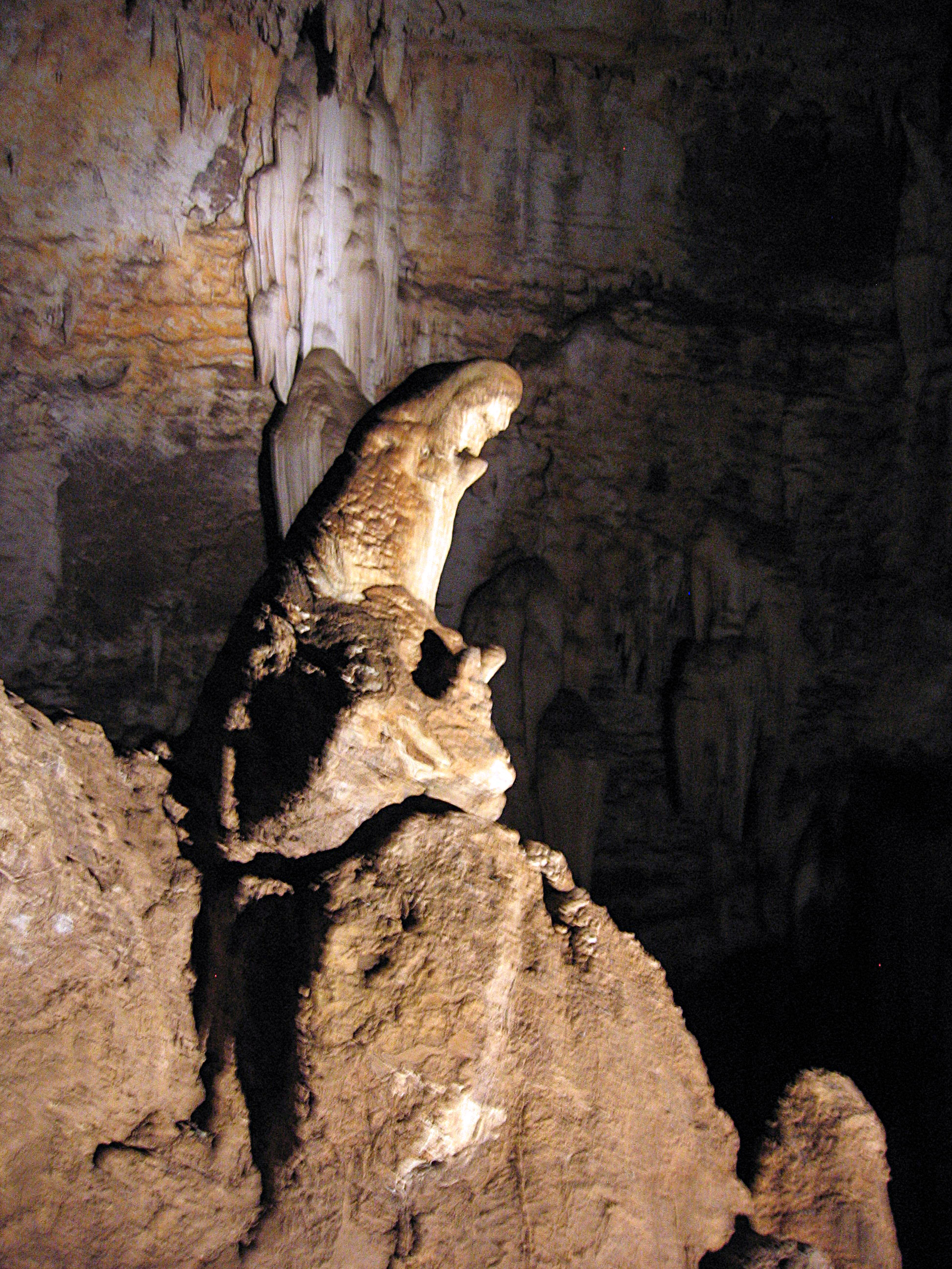 Taken by Rudolph Botha on 2005/05/22 at the Wonder Caves. Bothar 11:44, 18 January 2007 (UTC)